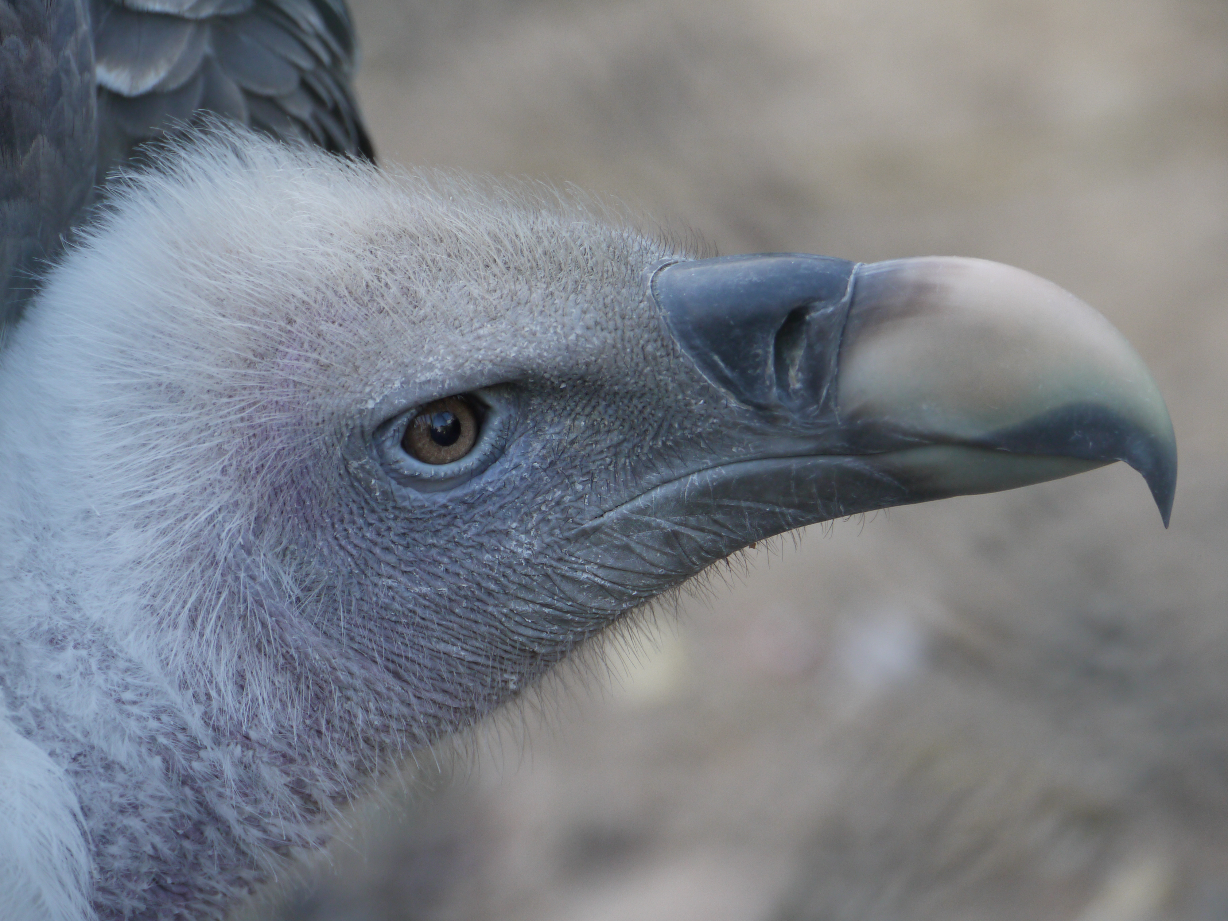 Head of an adult Rüppell's Vulture